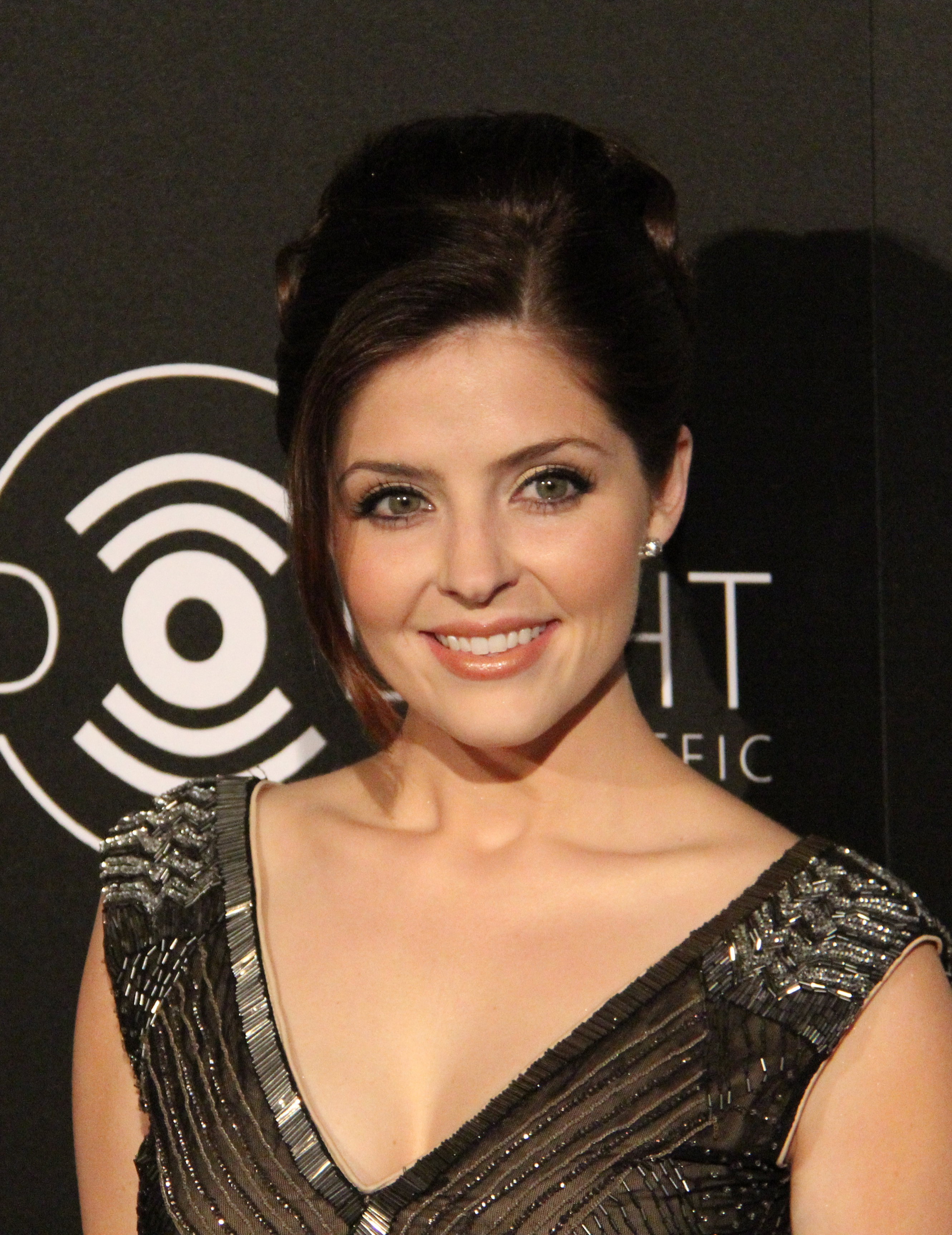 Jen Lilley ("The Artist") at Redlight Traffic's inaugural Dignity Gala (Michelle Tiu / Neon Tommy), cropped.